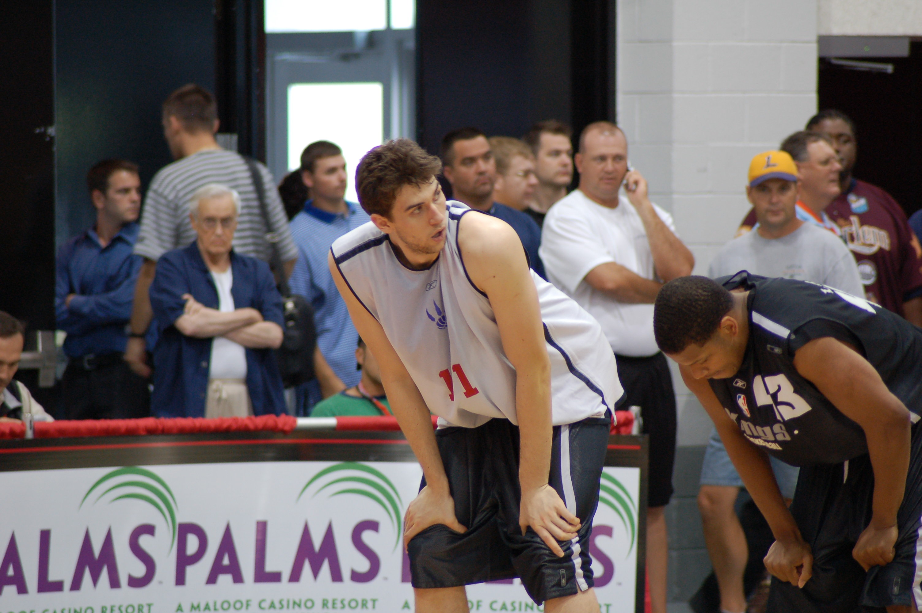 Andrea Bargnani of the Toronto Raptors before his rookie season.